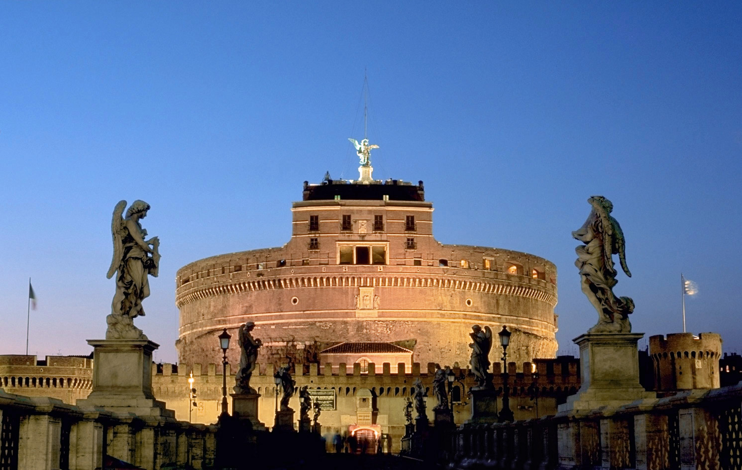 Castel Sant'Angelo, Roma. Rainer Zenz was kind enough to enhance the colors of the original image. Because this new image is used at some pages we keep these two versions. Photo was taken using the following technique: Film: Fuji Velvia Lens: 2.8/28 Filter: none Body: Minolta 9000 Support: Manfrotto 190B Image with Information in English Bild mit Informationen auf Deutsch